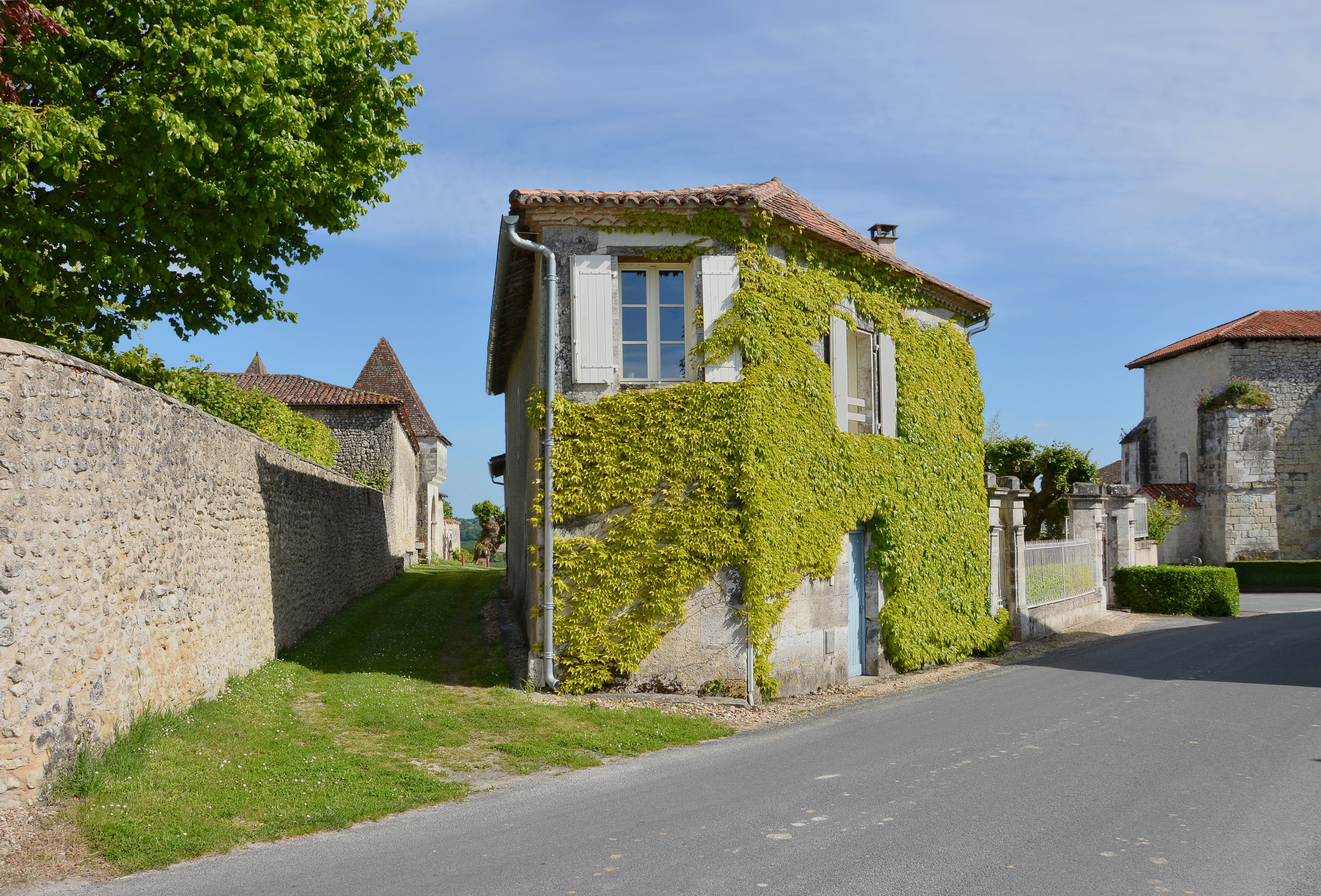 House and walkpath to the castle, Lusignac, Dordogne, France.